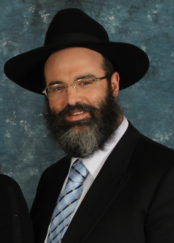 Profile Picture Shlomo Raskin 2015